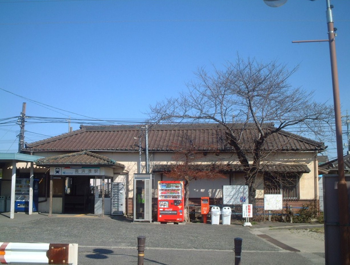 Nagoya Railroad Mikawa Line Takahama Minato Station Building